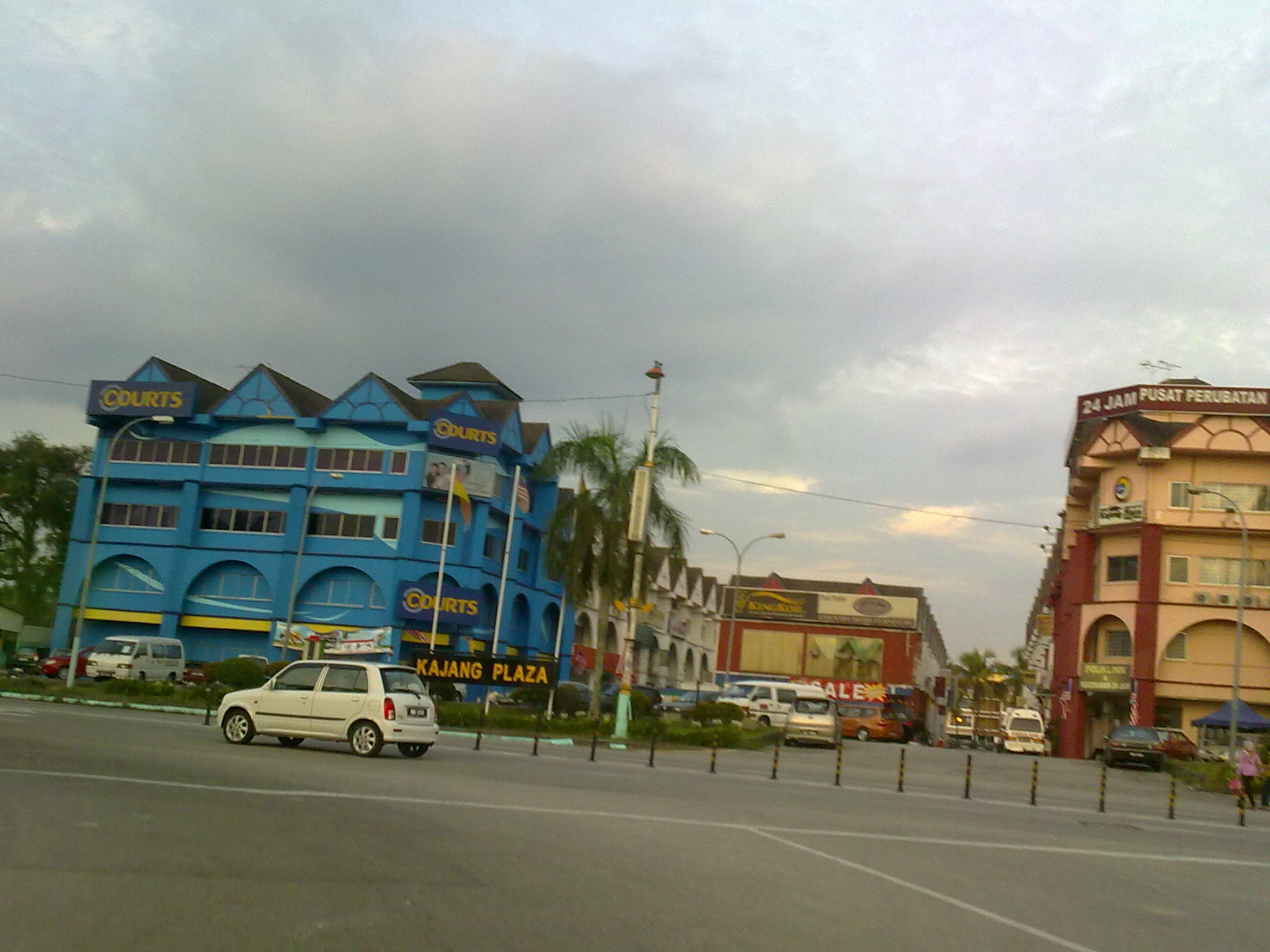 Courts Mammoth Kajang